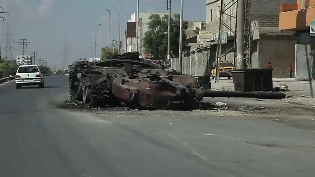 Blown out tank in Aleppo during the Syrian civil war.